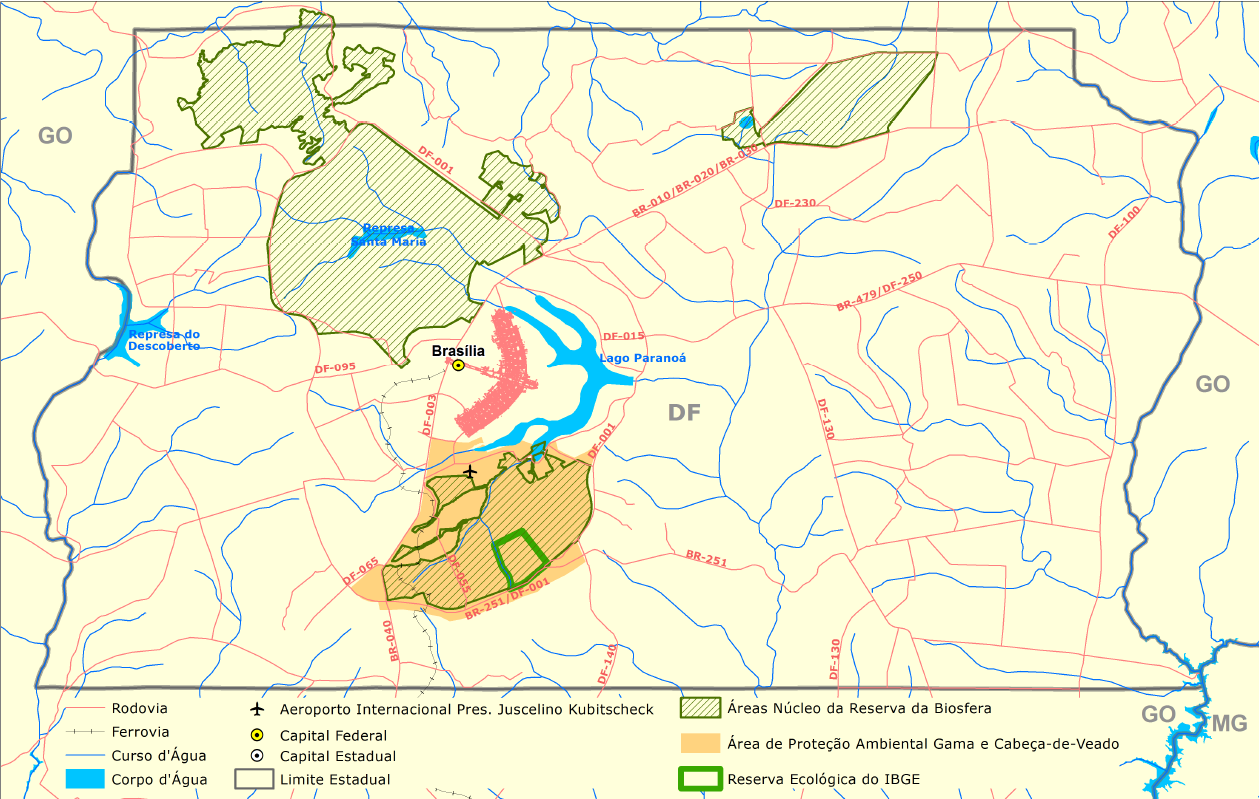 Location of Reserva Ecológica do IBGE in Distrito Federal - Brazil, showing nearby protected areas